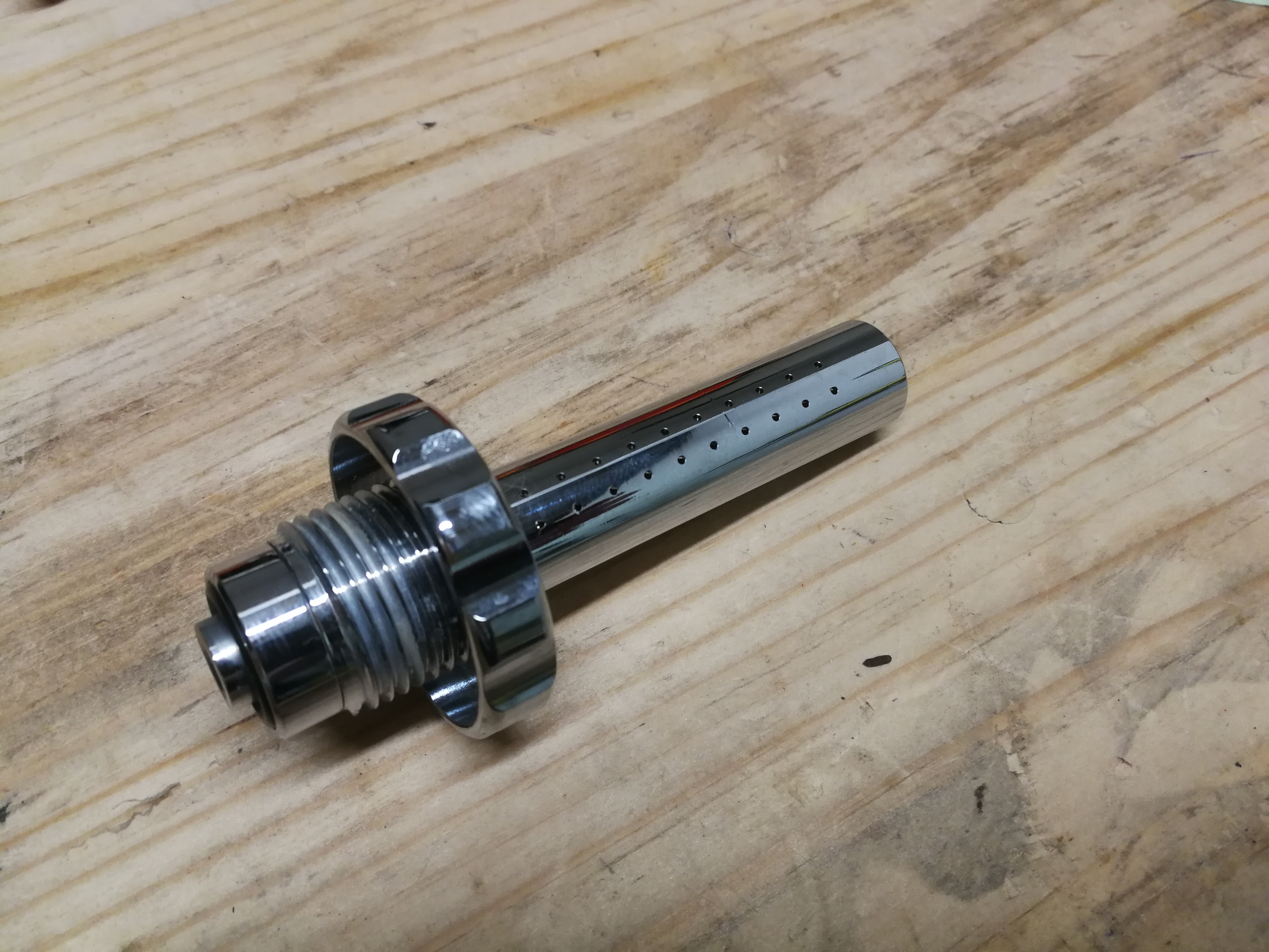 DIN fitting silencer for emptying scuba cylinders fast